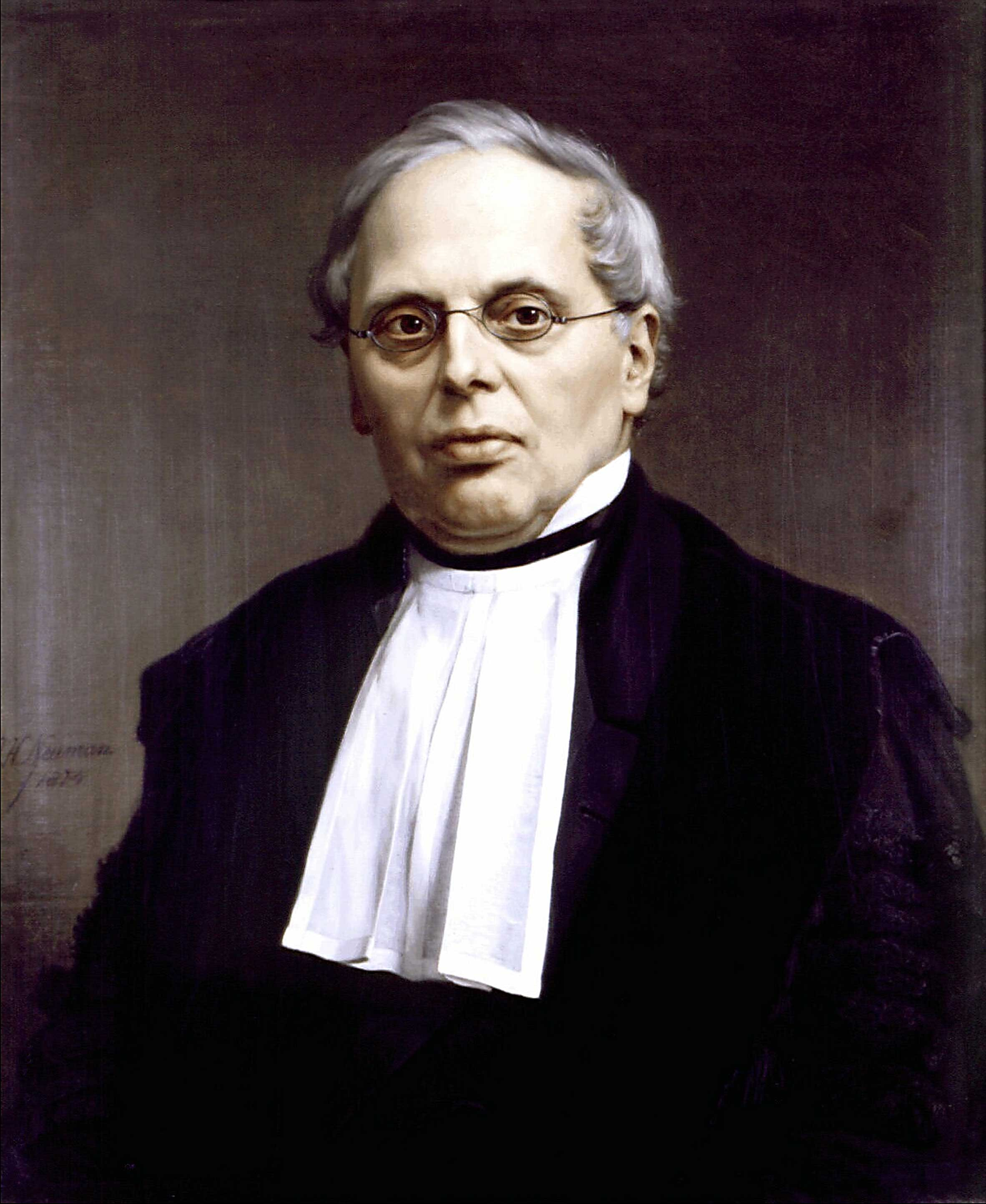 Jacques Adolphe Charles Rovers (1803-1874), Dutch philologist and historian